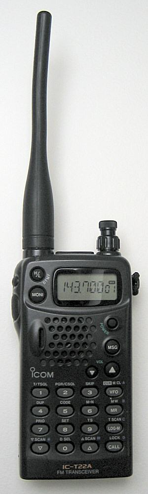 2m-band radio.